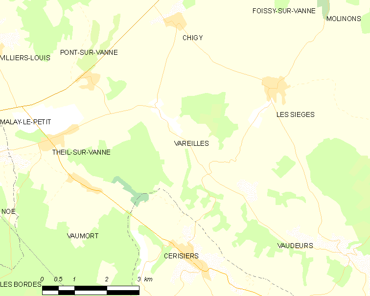 Map of French municipality Vareilles